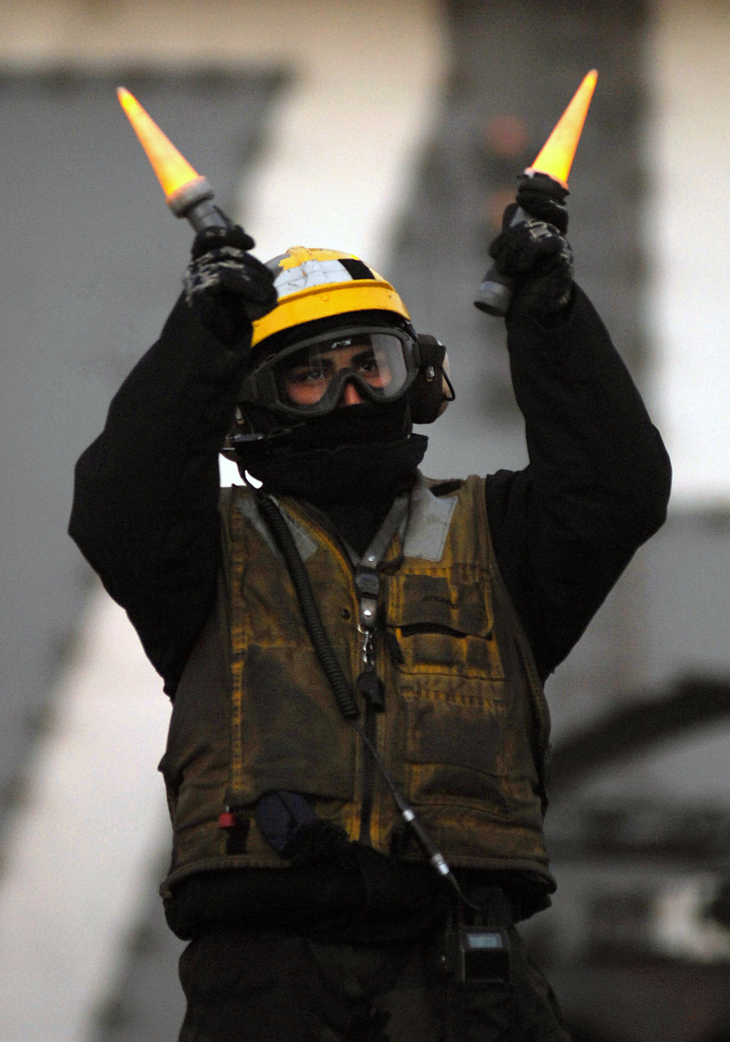 PERSIAN GULF (Jan. 14, 2008) Aviation Boatswain's Mate (Handler) 3rd Class Gerald J. Garces, assigned to Air Department's V-1 division aboard the Nimitz-class nuclear-powered aircraft carrier USS Harry S. Truman (CVN 75), taxies an aircraft during flight operations. Truman and embarked Carrier Air Wing (CVW) 3 are underway on a scheduled deployment in support of Operations Iraqi Freedom, Enduring Freedom and maritime security operations, in the 5th Fleet area of responsibility. U.S. Navy photo by Mass Communication Specialist 3rd Class Ricardo J. Reyes (Released)